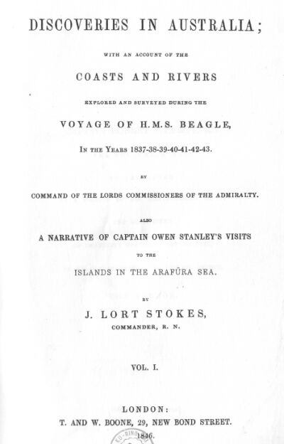 This is an image of the title page of Volume 1 of John Lort Stokes' 1846 book Discoveries in Australia.